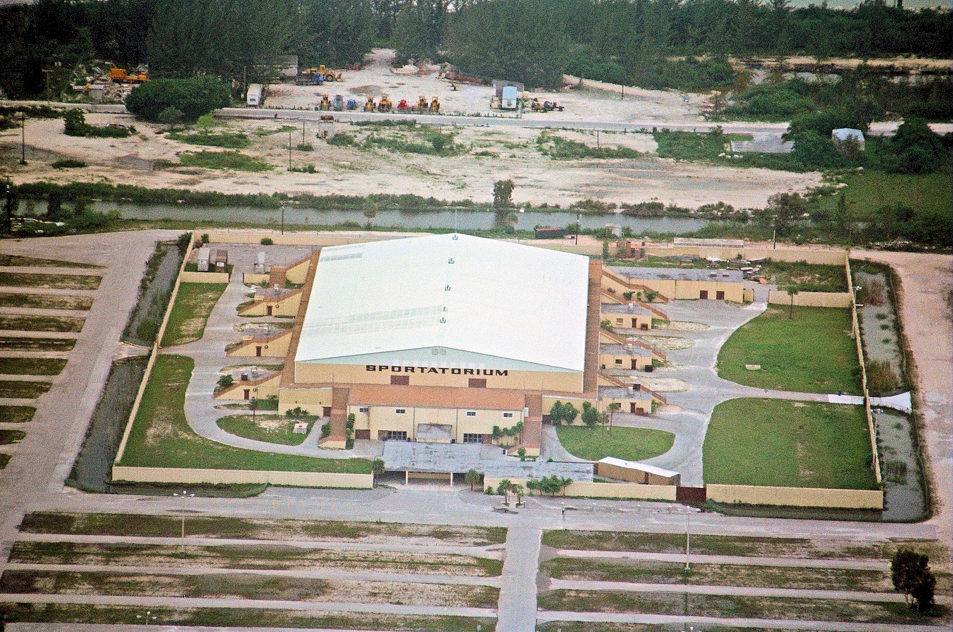 Aerial photo of the Hollywood Sportatorium looking west